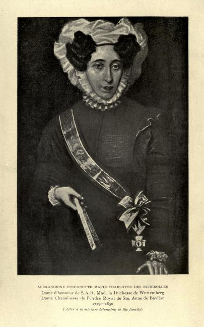 Alexandrine Etiennette Marie Charlotte des Écherolles, Dame d’honneur de S.A.R. Mad, la Duchesse de Wurtemberg - Dame Chanoinesse de l’Ordre Royal de Ste. Anne de Baviere, 1779-1850 (after a miniature belonging to the family)